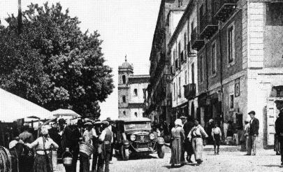 Corso Plebiscito in the old town of Cosenza